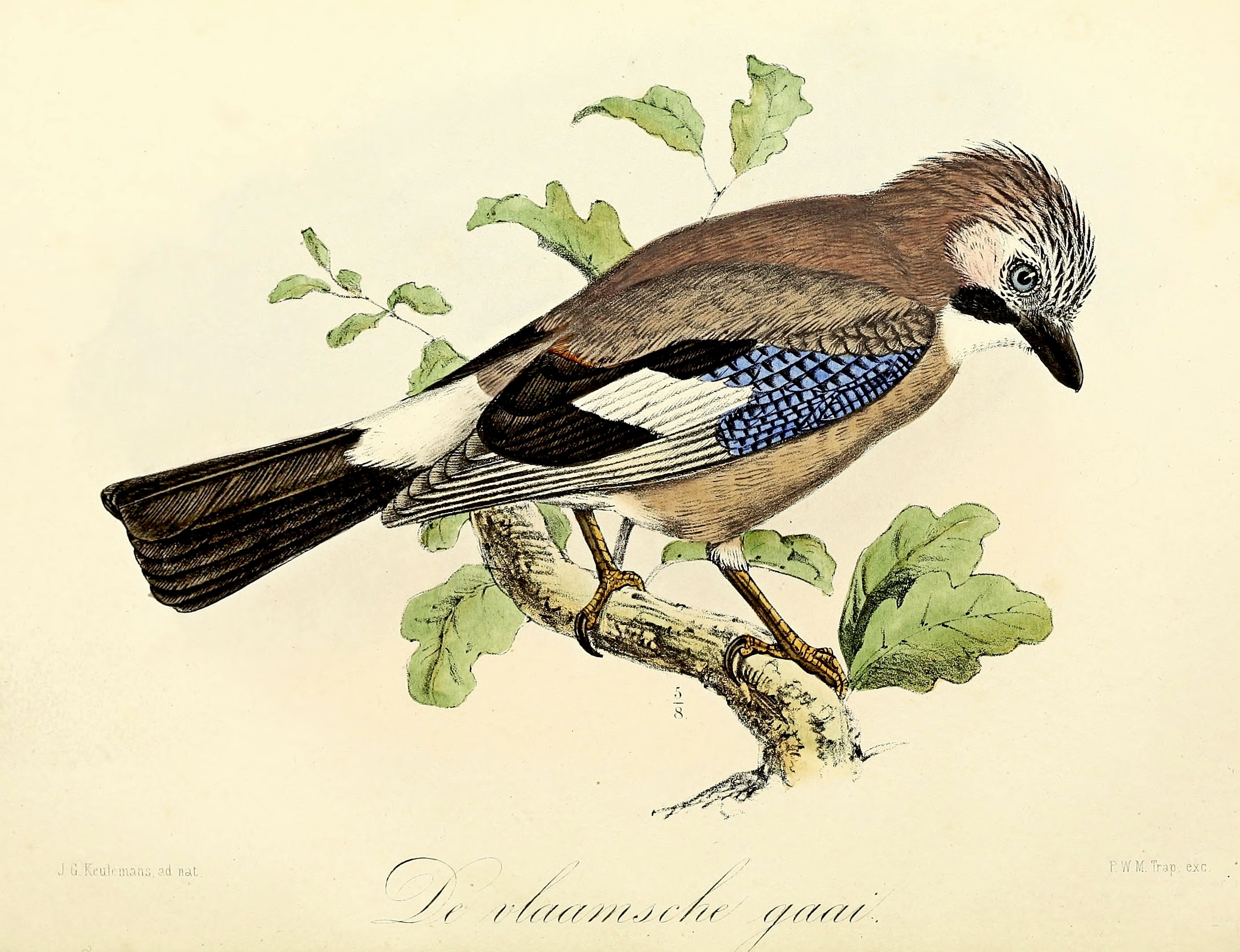 « Garrrulus glandarius » = Garrulus glandarius (Eurasian jay)